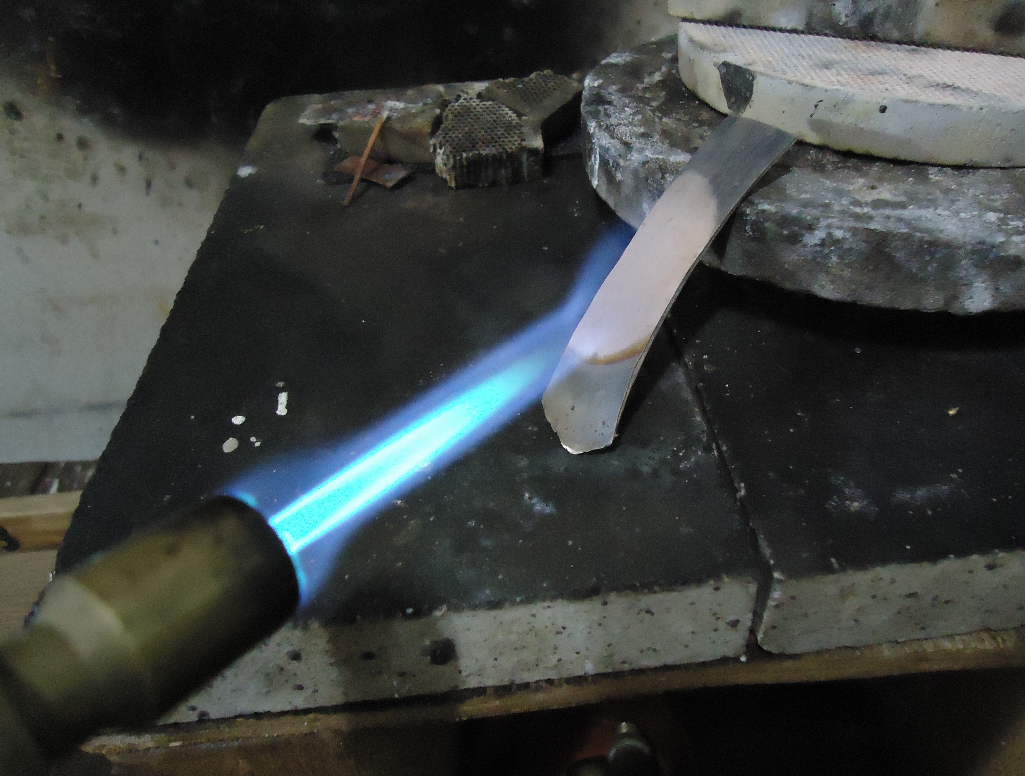 A strip of 950-silver being heated. After this, the strip is quickly immersed in water. This procedure softens the metal. Mauro Cateb, Brazilian jeweler and silversmith.